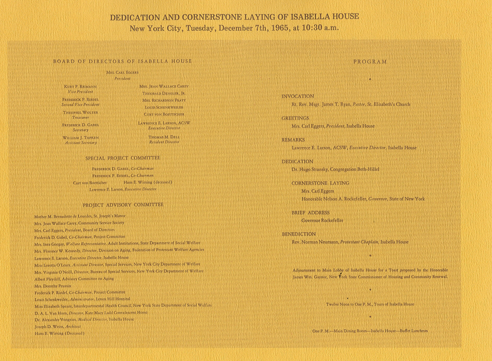 This is a copy of the program distributed on the day of the dedication of Isabella House in 1965. The then Governor of New York State, Nelson A. Rockefeller, dedicated Isabella House. The House provided independent living for approximately 250 aged residents. This affordable housing residence for the well elderly was a new concept in institutional care for the aged.